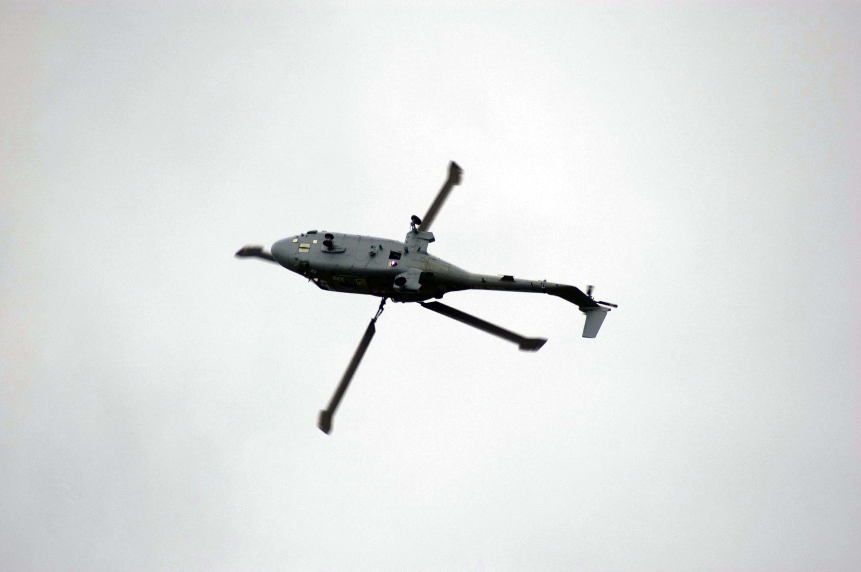 Westland Lynx performing a looping during Scottish Airshow 2007